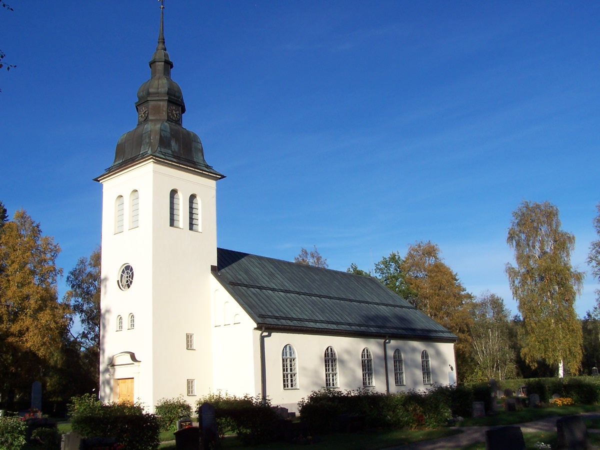 Sättna church, Sundsvall, Sweden